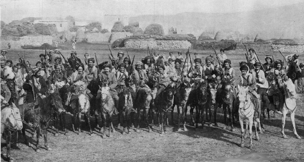 From the original "Troops of Kurdish Cavalry Ottomans were using against the Russians in the passes of the caucasus mountains (Caucasus Campaign)" World War One.